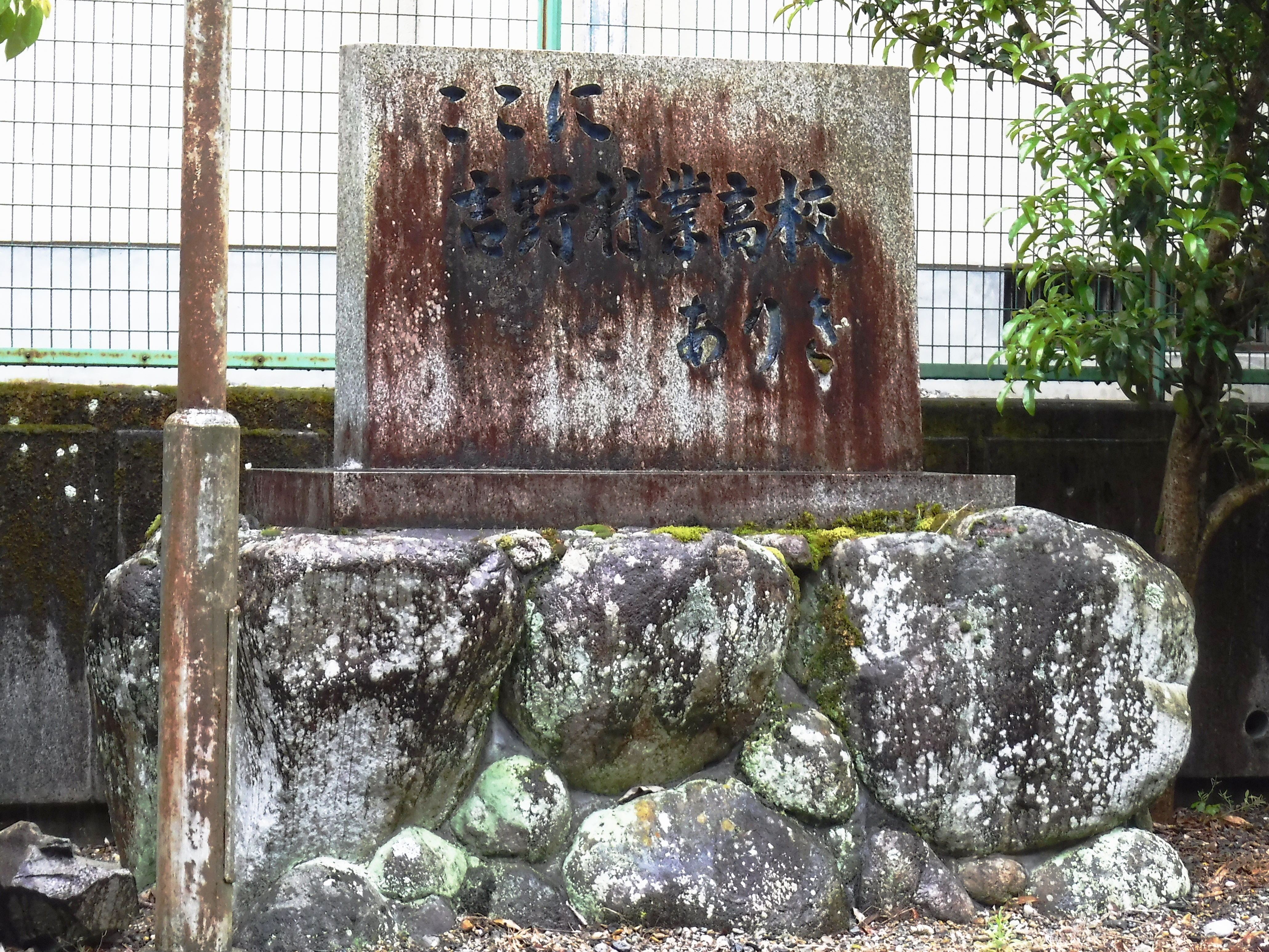 Memorial of Nara Prefectural Yoshino Forestry High School (closed 1978) in Kawakami, Nara, Japan.